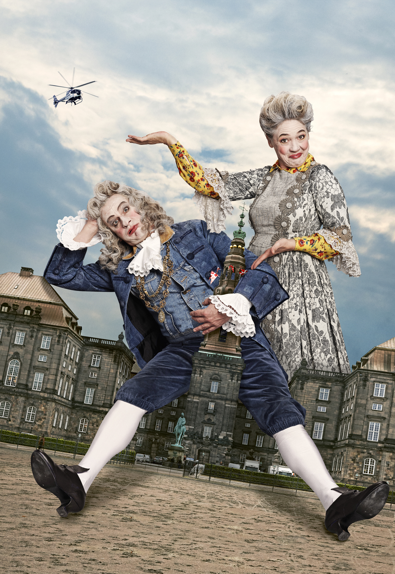 Henrik Koefoed and Mette Horn in the Copenhagen theater Folketeatret's production of the play "Den politiske kandestøber" by Ludvig Holberg.